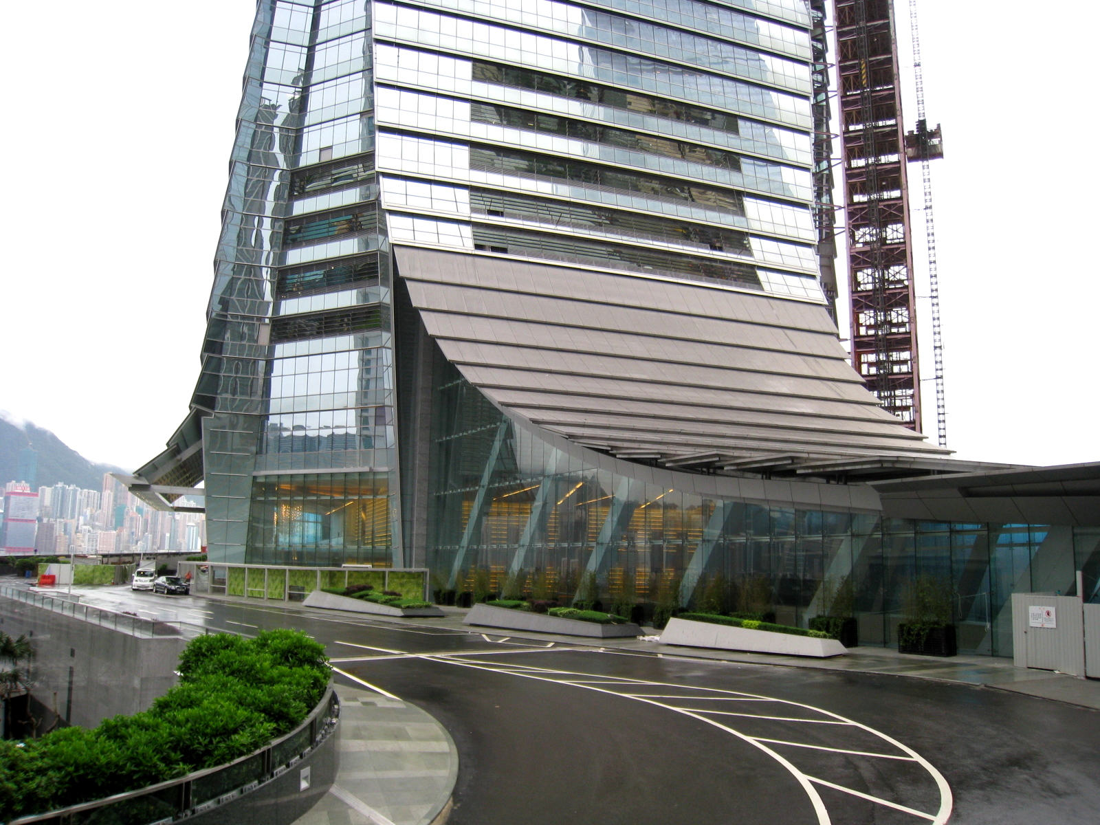 ICC GF lobby outside view 環球貿易廣場